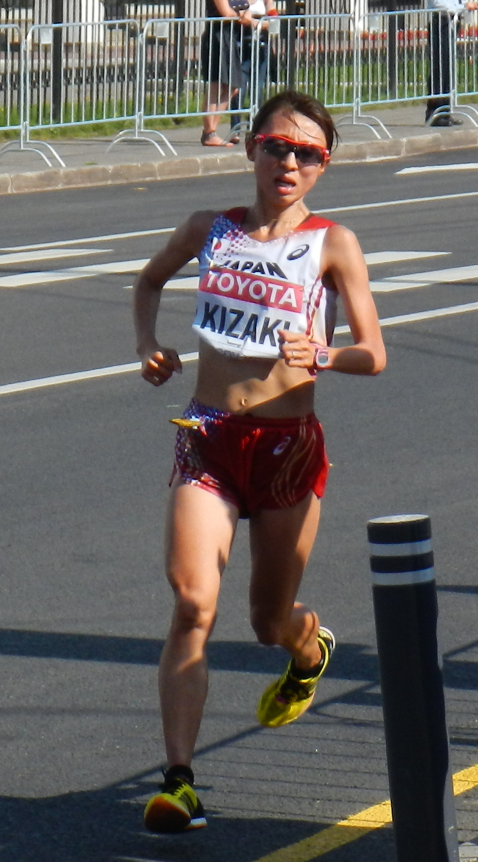 Ryoko Kizaki during 2013 World Championships in Athletics – Women's Marathon